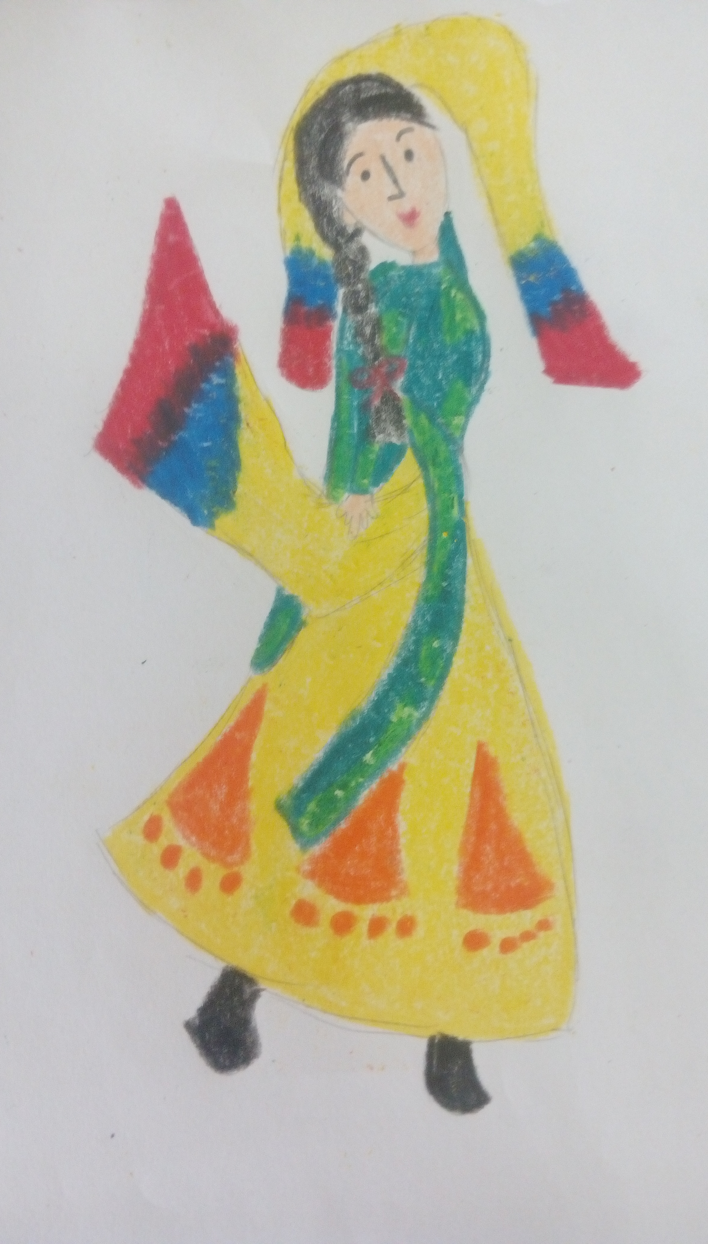 Basseri